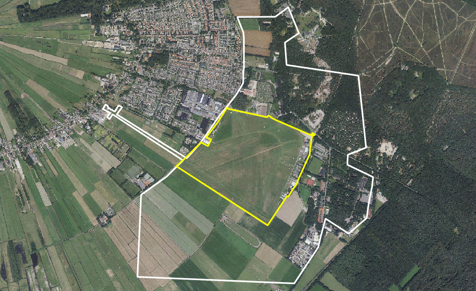 The white line depicts the boundary of the Hilversum airport during the second world war, the yellow line shows the original and current boundary.